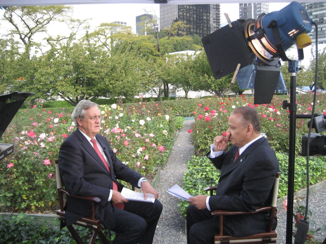 Talal Al-Haj interviewing Nicholas Haysom, Director of Politcal Affairs of the Exec. Office to the Secretary General of the United Nations